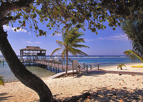 The beach at Brac Reef Resort. Taken by author, Skip Harper.